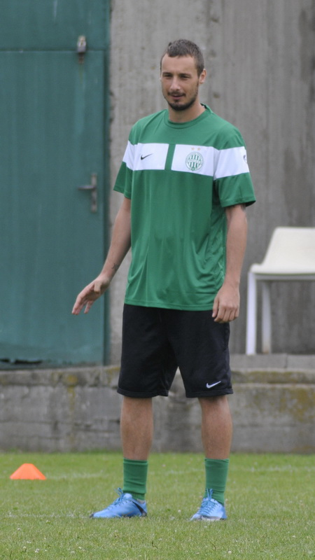 Srđan Stanić, serbian football player